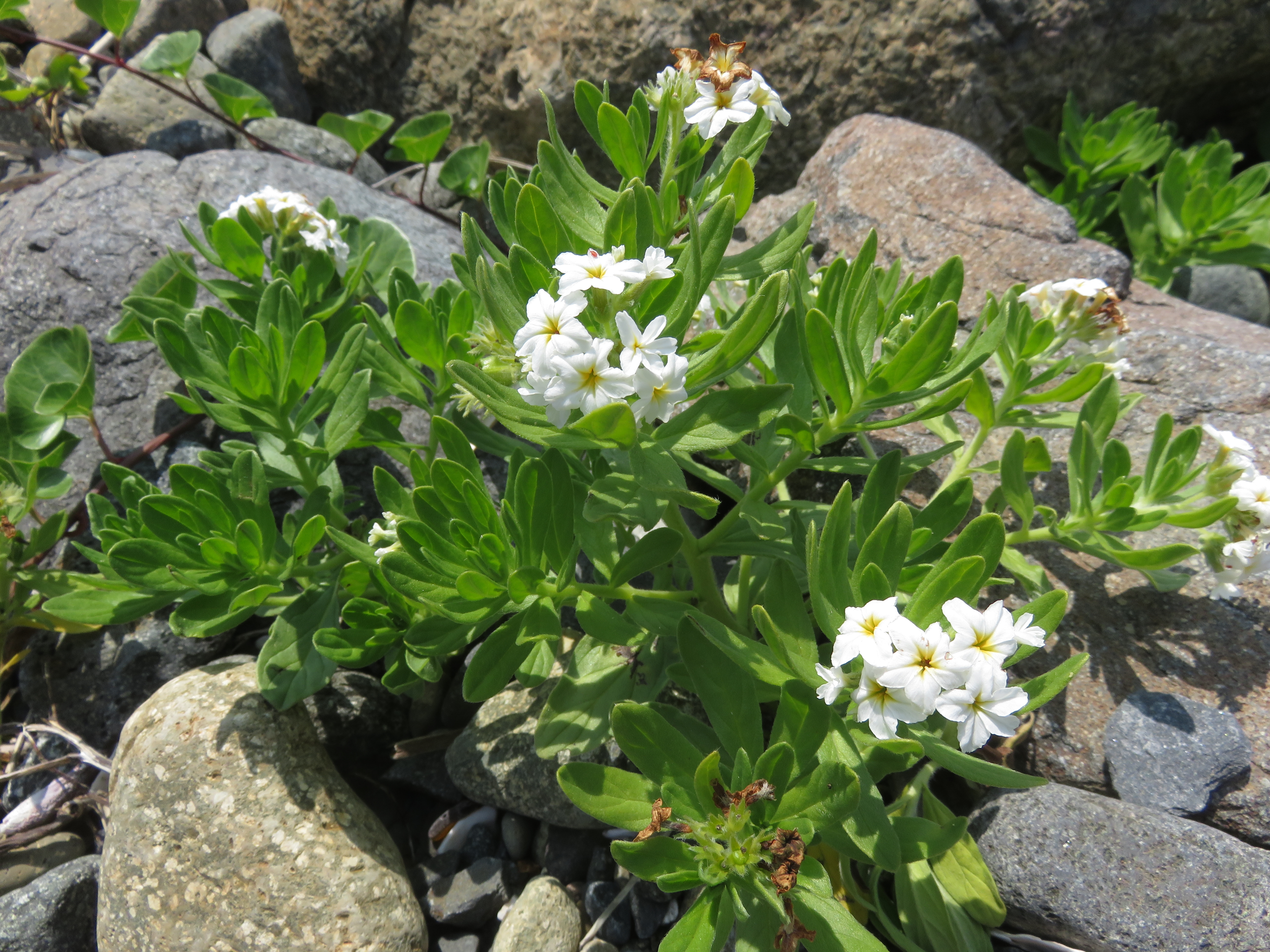 Heliotropium japonicum, Tanesashi Coast, Aomori pref., Japan